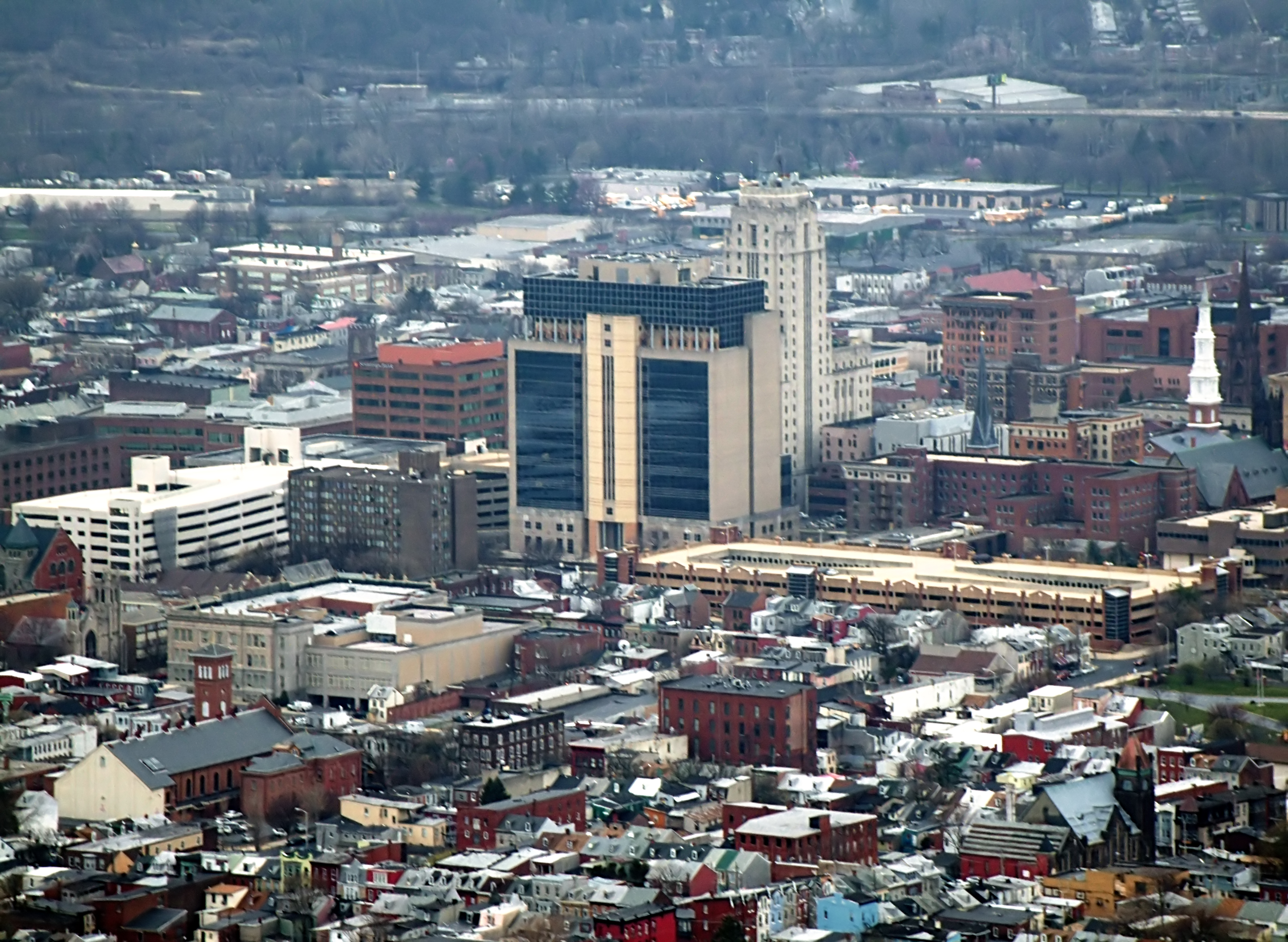 Zoomed-in view of downtown Reading, Berks County, from the fire tower at Mount Penn.